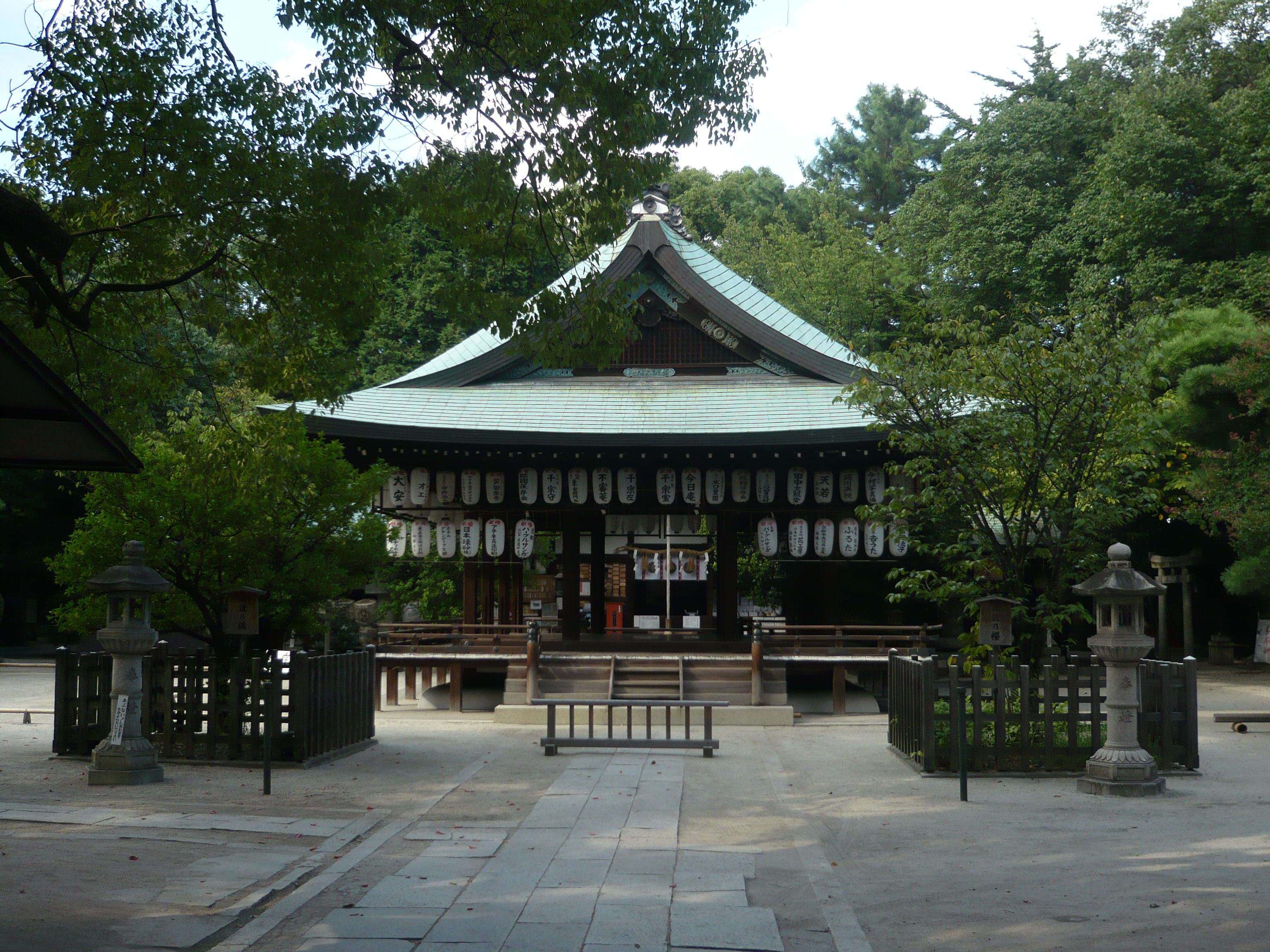 the haiden of Shiramine-jingū, Kamigyō, Kyōto, Japan 白峯神宮拝殿（京都市上京区）